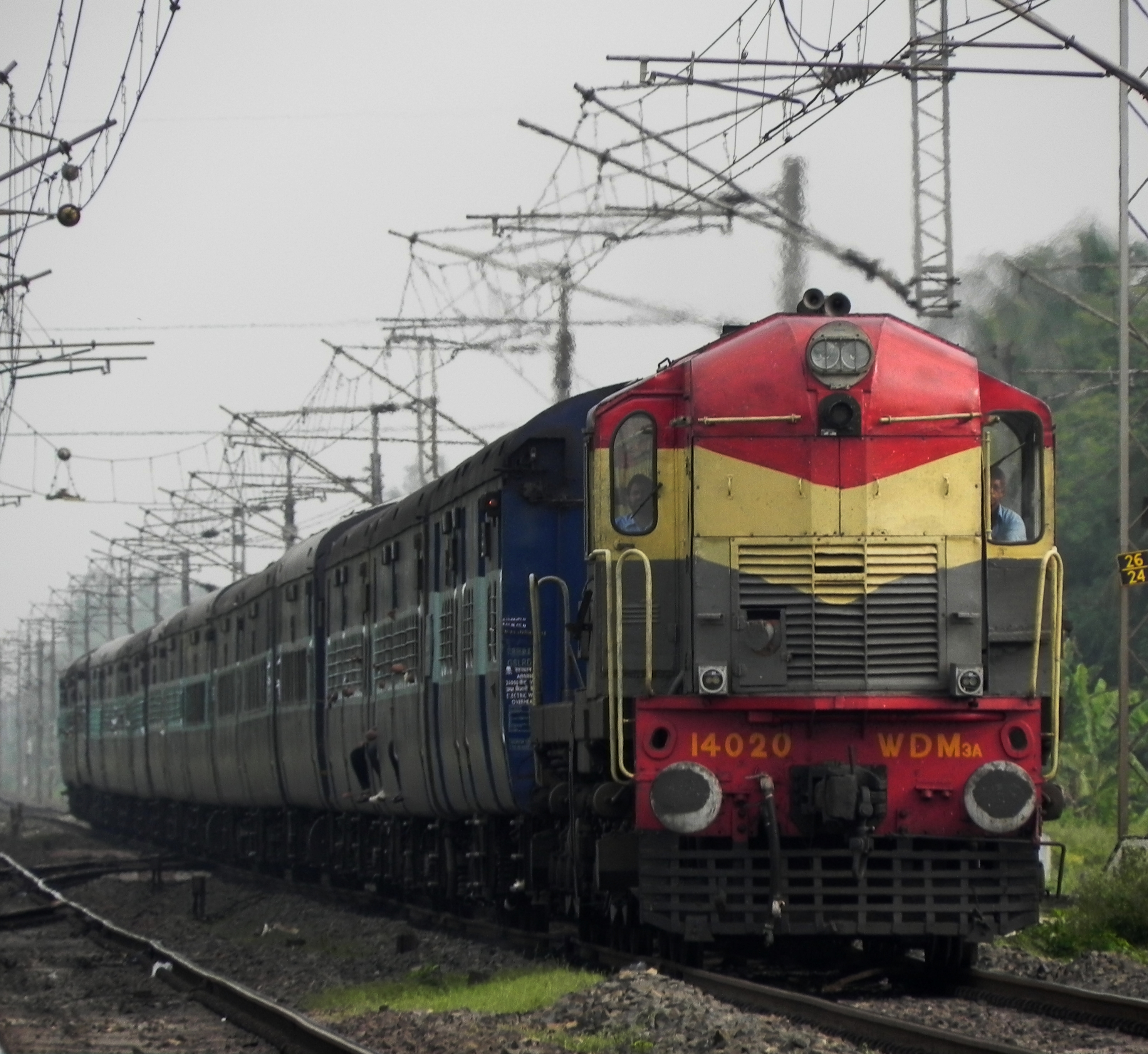 12378 (NJP-SDAH) Padatik Express at Baruipara, West Bengal hauled by WDM-3A baldie - 14020(BWN)